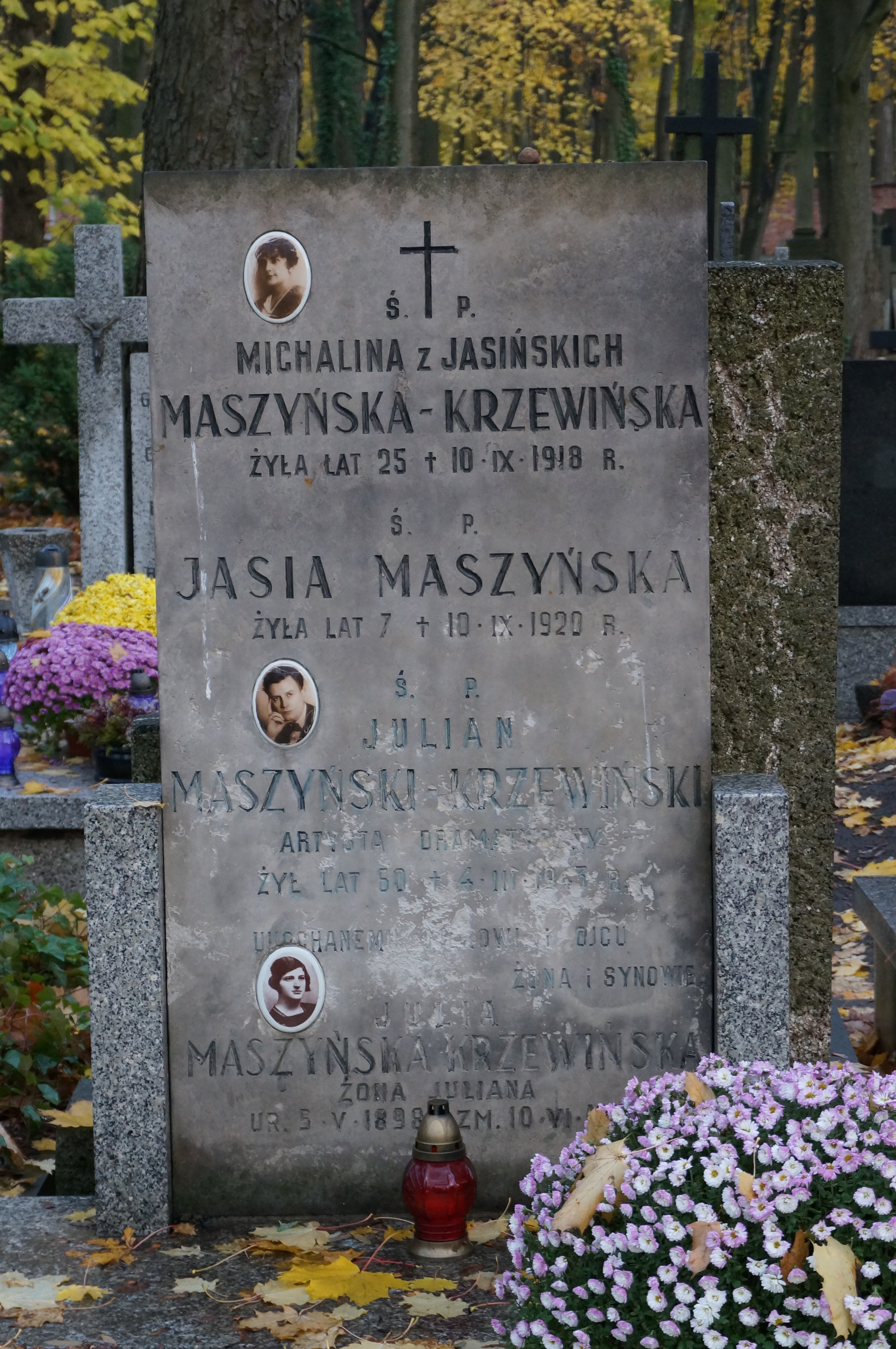 The grave of Julian Krzewinski at the Powązki Cemetery (section 320, row 5, grave 4)